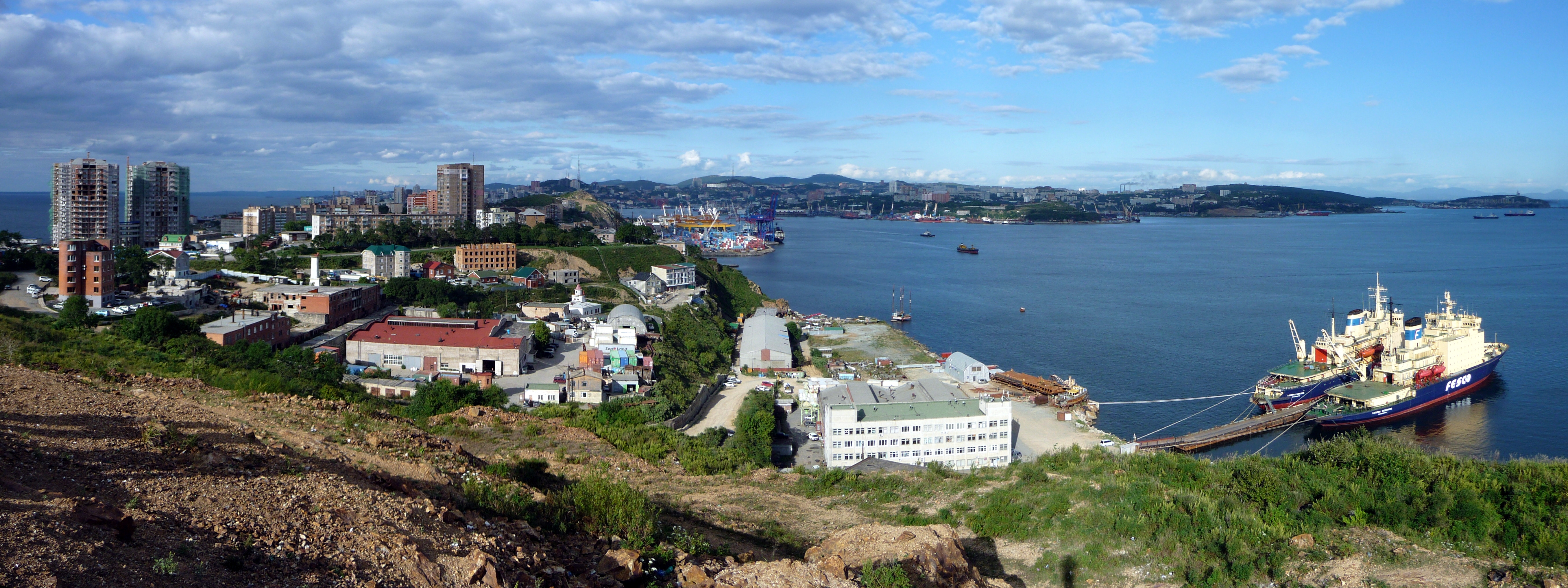 View of Vladivostok from the Tigrovy cape on the Shkota peninsula (Primorsky Krai, Russia).